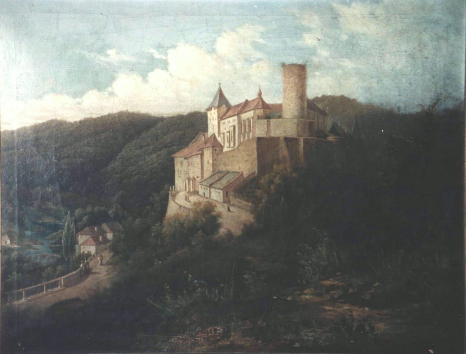 The castle of Křivoklát by Josef Mathauser